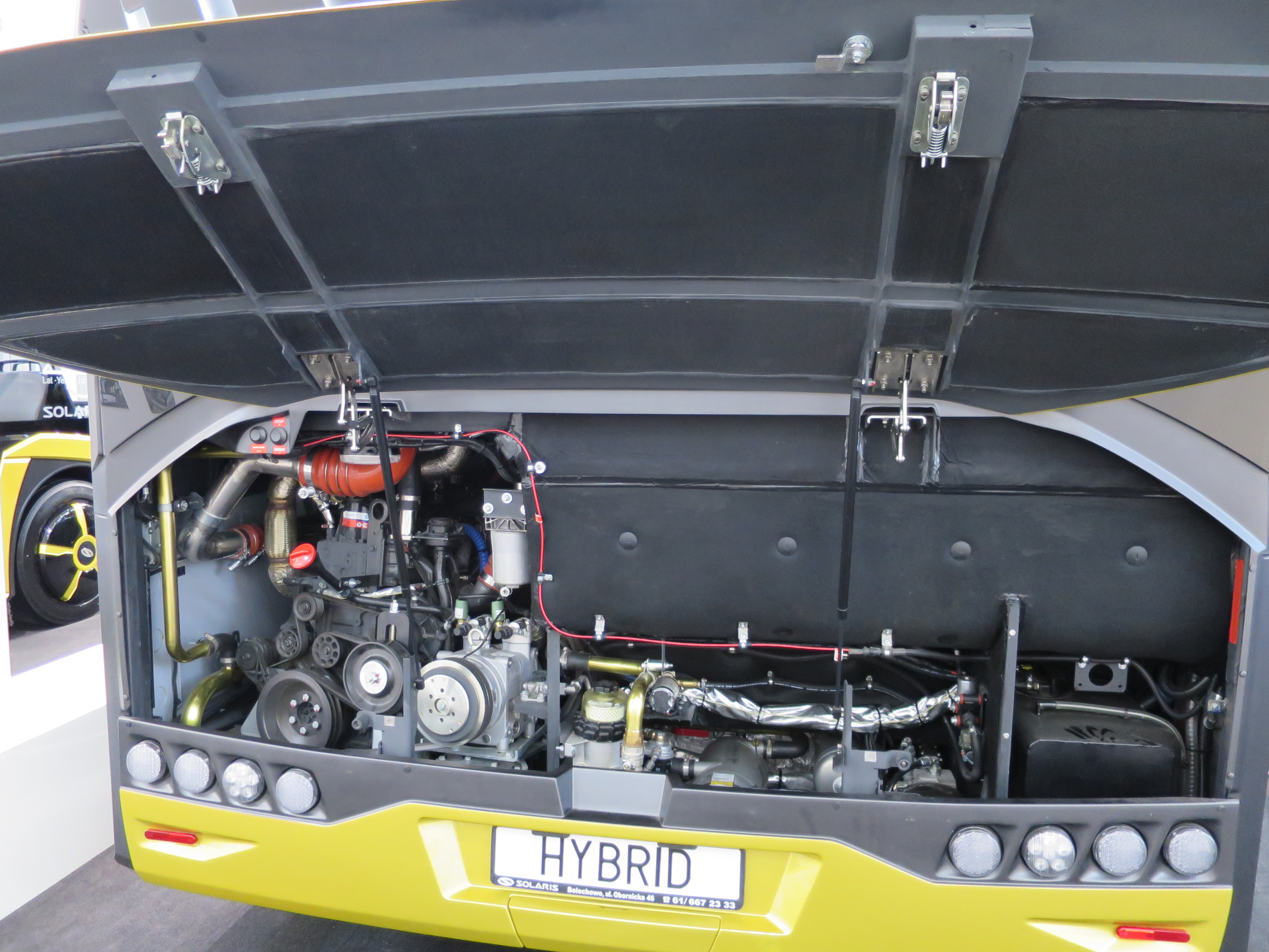 The making of this document was supported by Wikimedia Polska Association, within Wikigrant no. WG 2016-35. Solaris Urbino 12 Hybrid